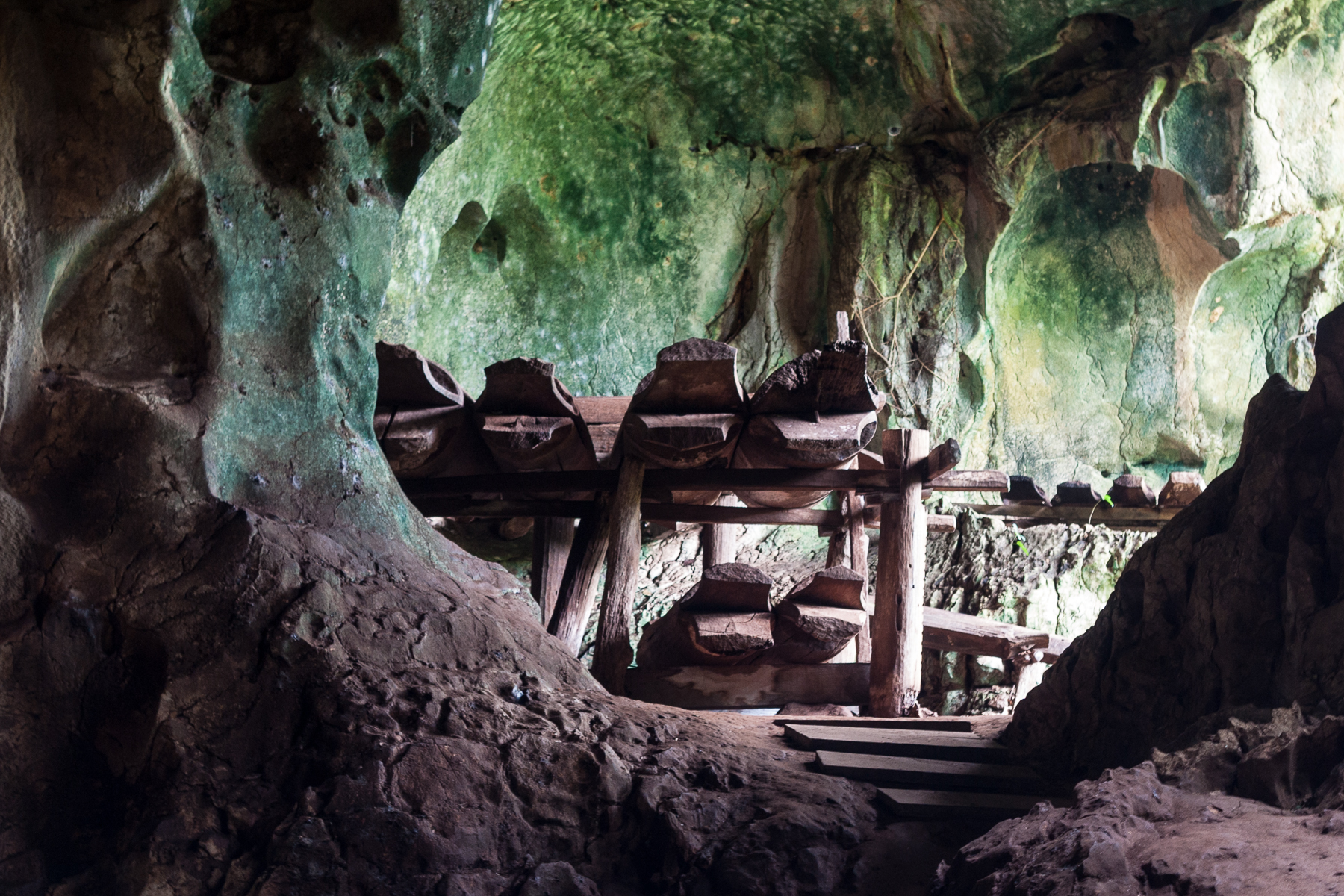 Kg. Batu Putih, Sabah: Agop Batu Tulug (Batu Tulug Caves) in District Kinabatangan; Wooden Coffins